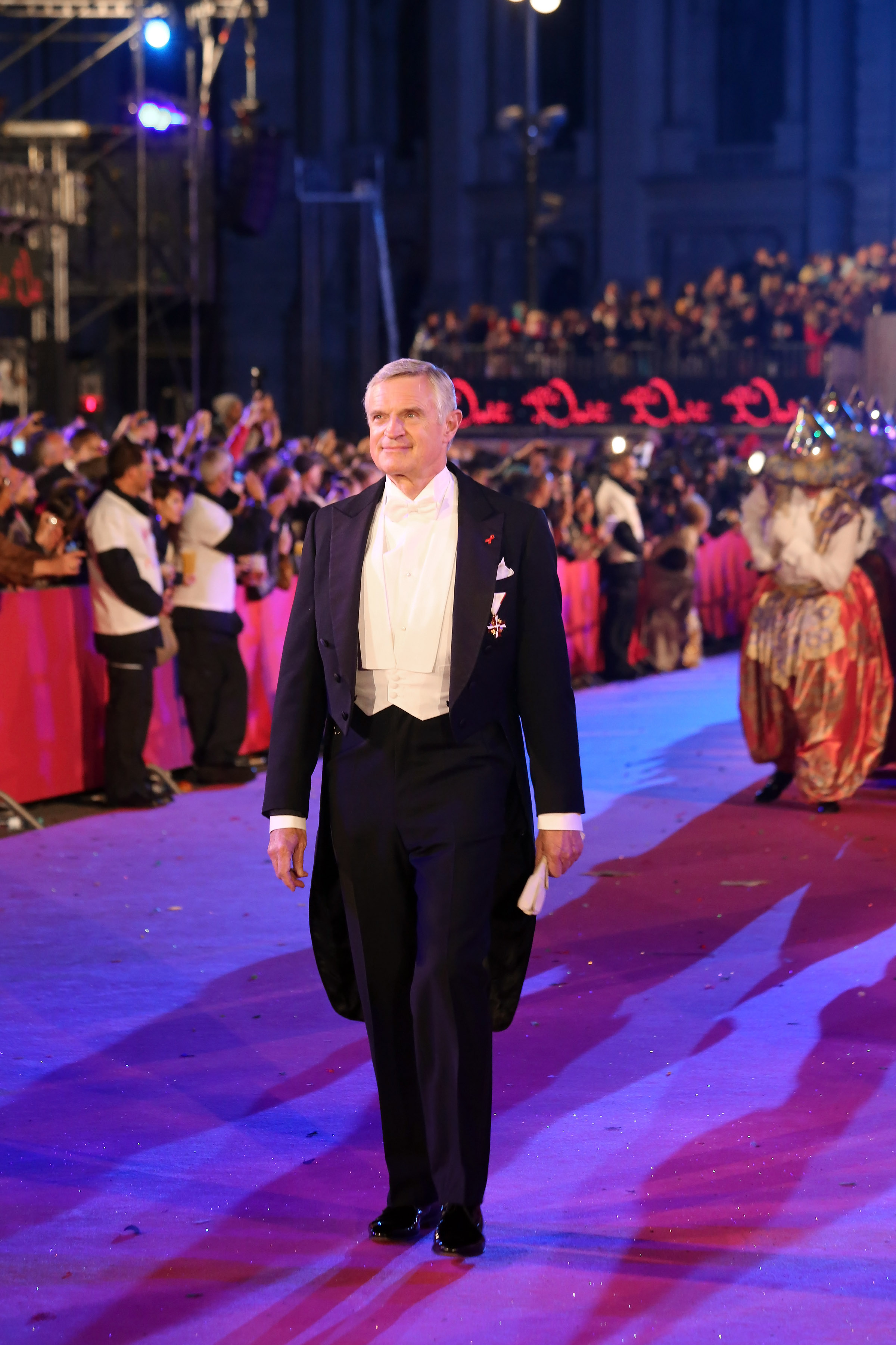 Thomas Schäfer-Elmayer, opening show of Life Ball 2013 at the city hall of Vienna, Vienna, Austria.